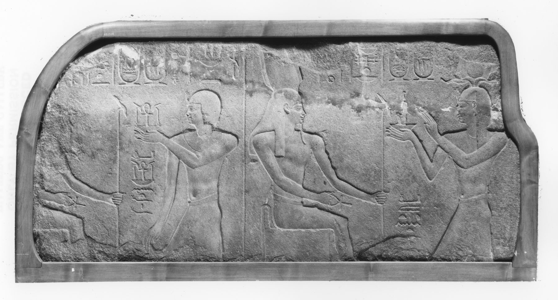 Ptolemy II presents offerings to the enthroned god Osiris in two scenes. To the left, the king holds an object composed of hieroglyphs meaning "all life and dominion" before the god's partially preserved figure. To the right, the king wears a headdress composed of double plumes and offers another hieroglyphic object, this time a figure of the goddess of cosmic order, Maat, meaning that the king rules with order and justice.